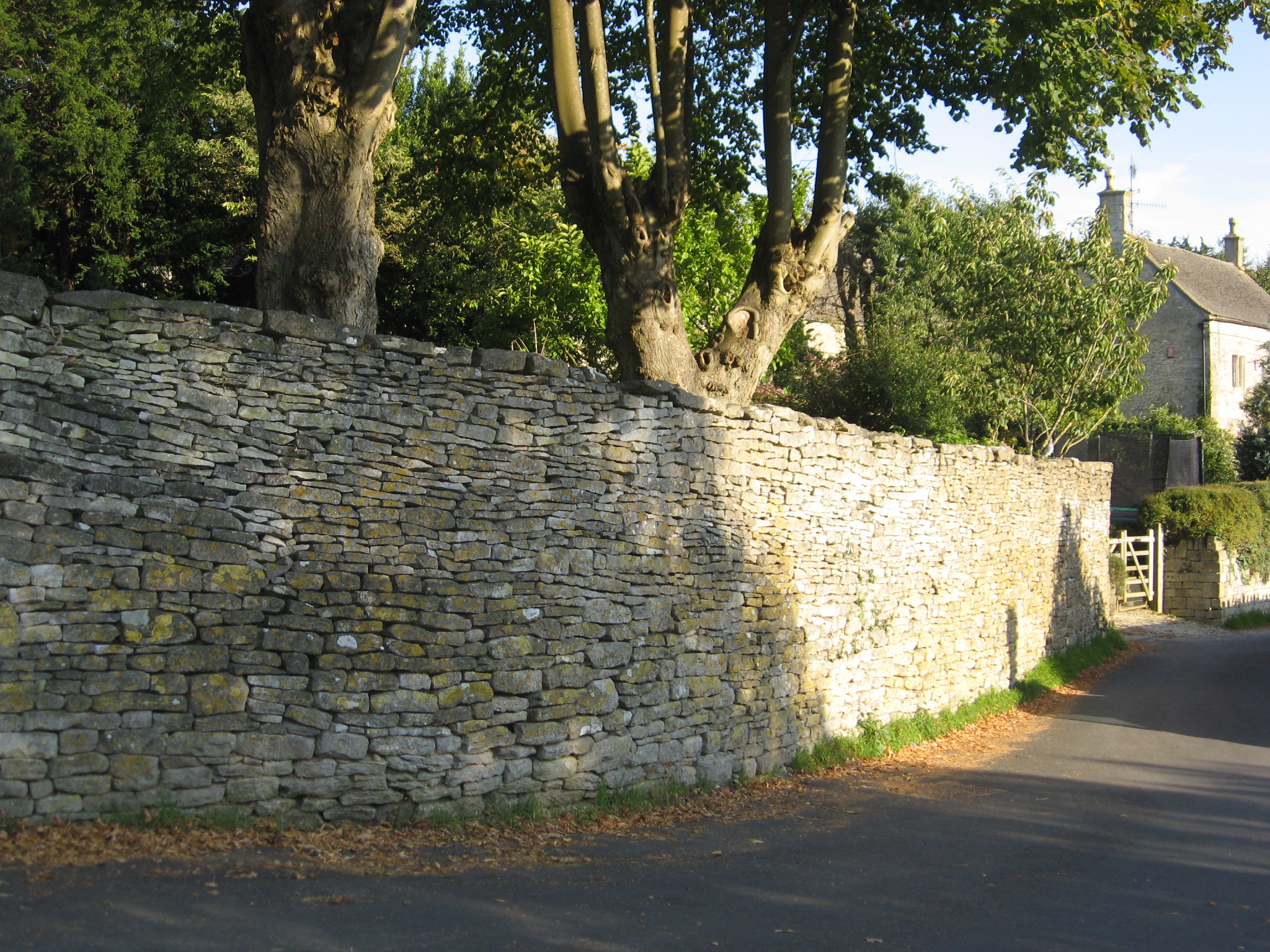 Cotswold dry-stone wall in Chalford Hill, Gloucestershire